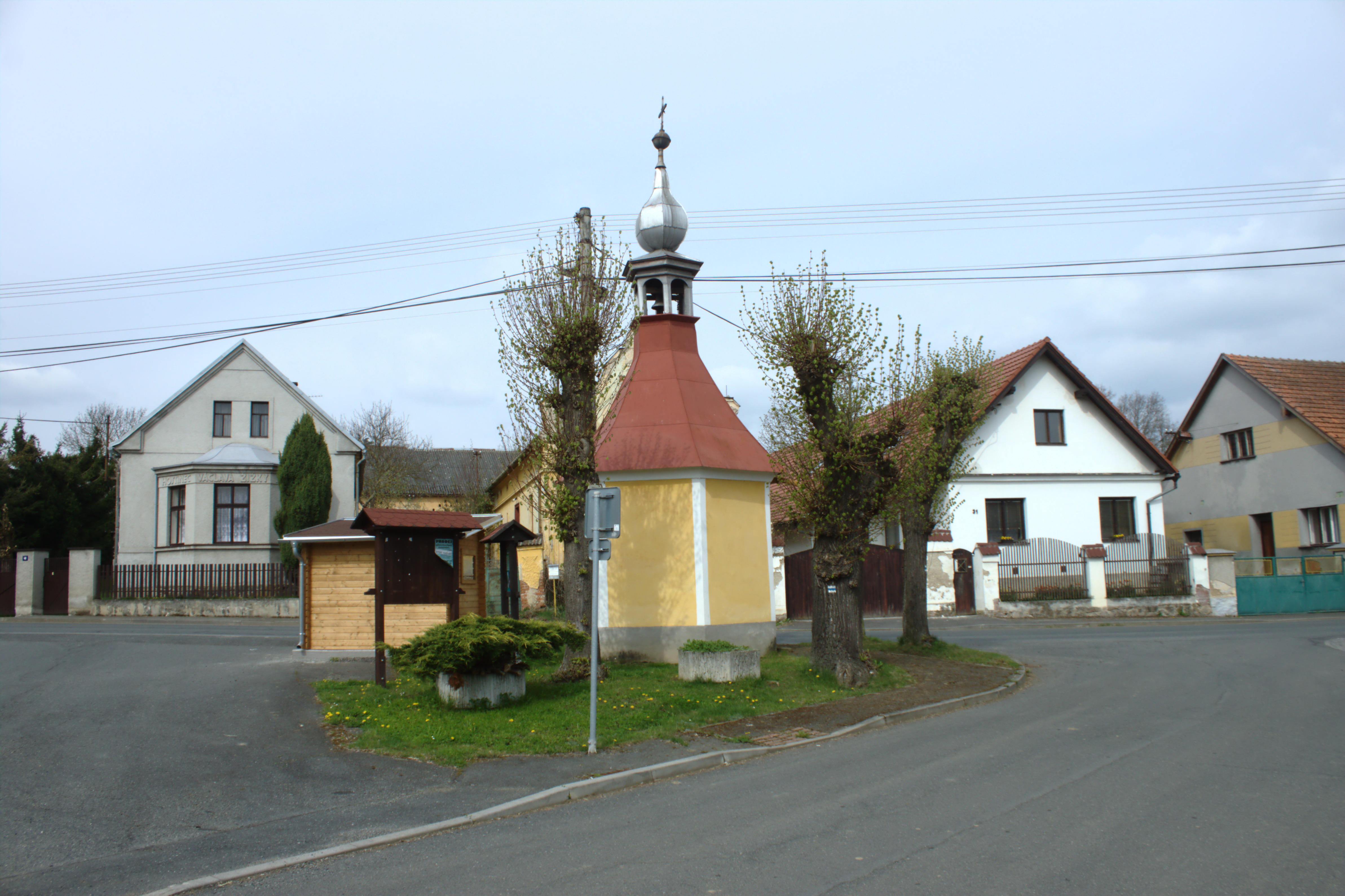 A chapel on a common in the village of Všepadly, Plzeň Region, CZ